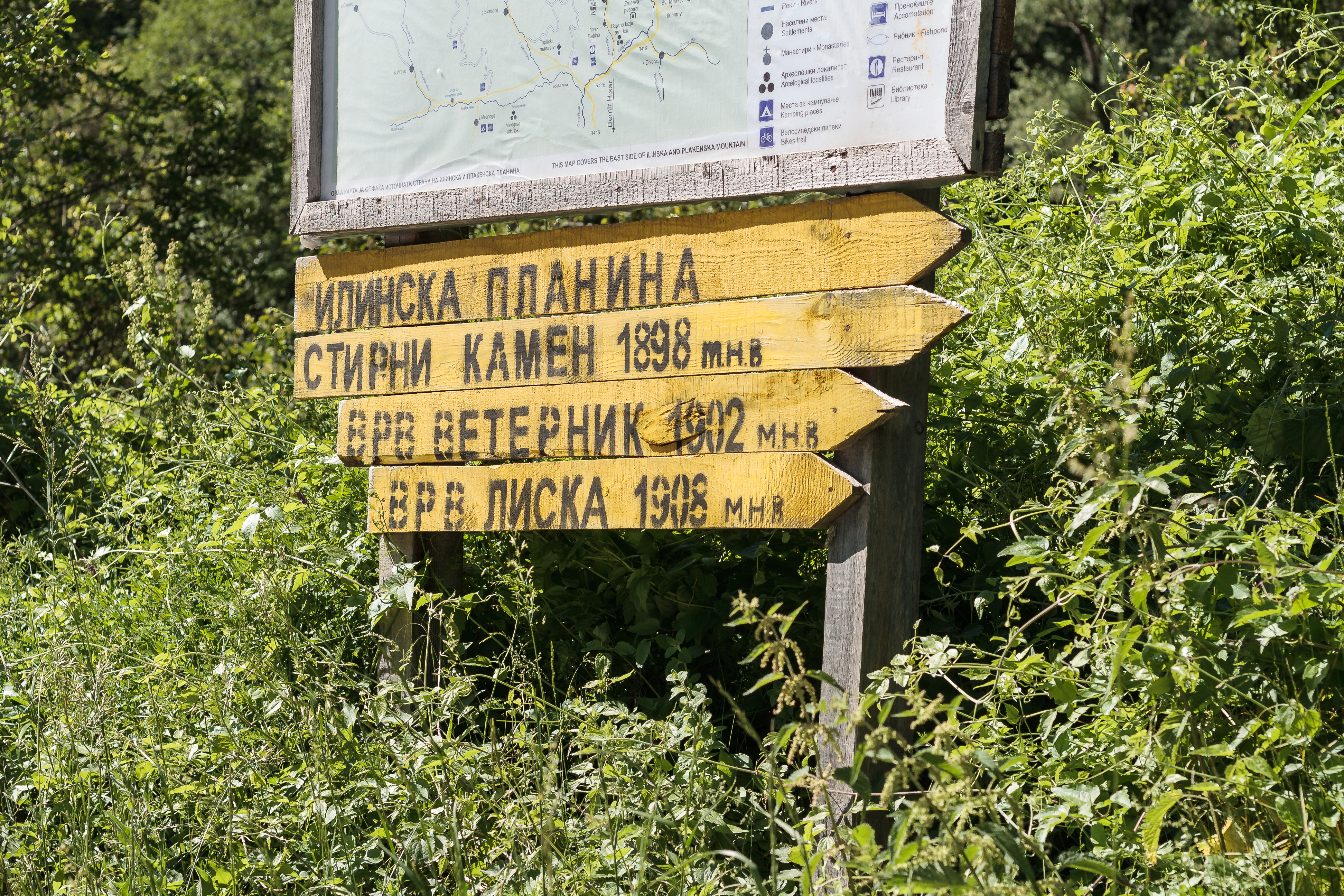 Informative table in the village Golemo Ilino